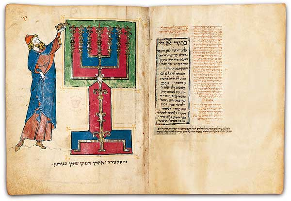 Folios 113b-114a of the North French Hebrew Miscellany manuscript - Aaron as High Priest. Aaron pours oil into the lighted lamps of the Tabernacle menorah, the seven-branched candelabrum.